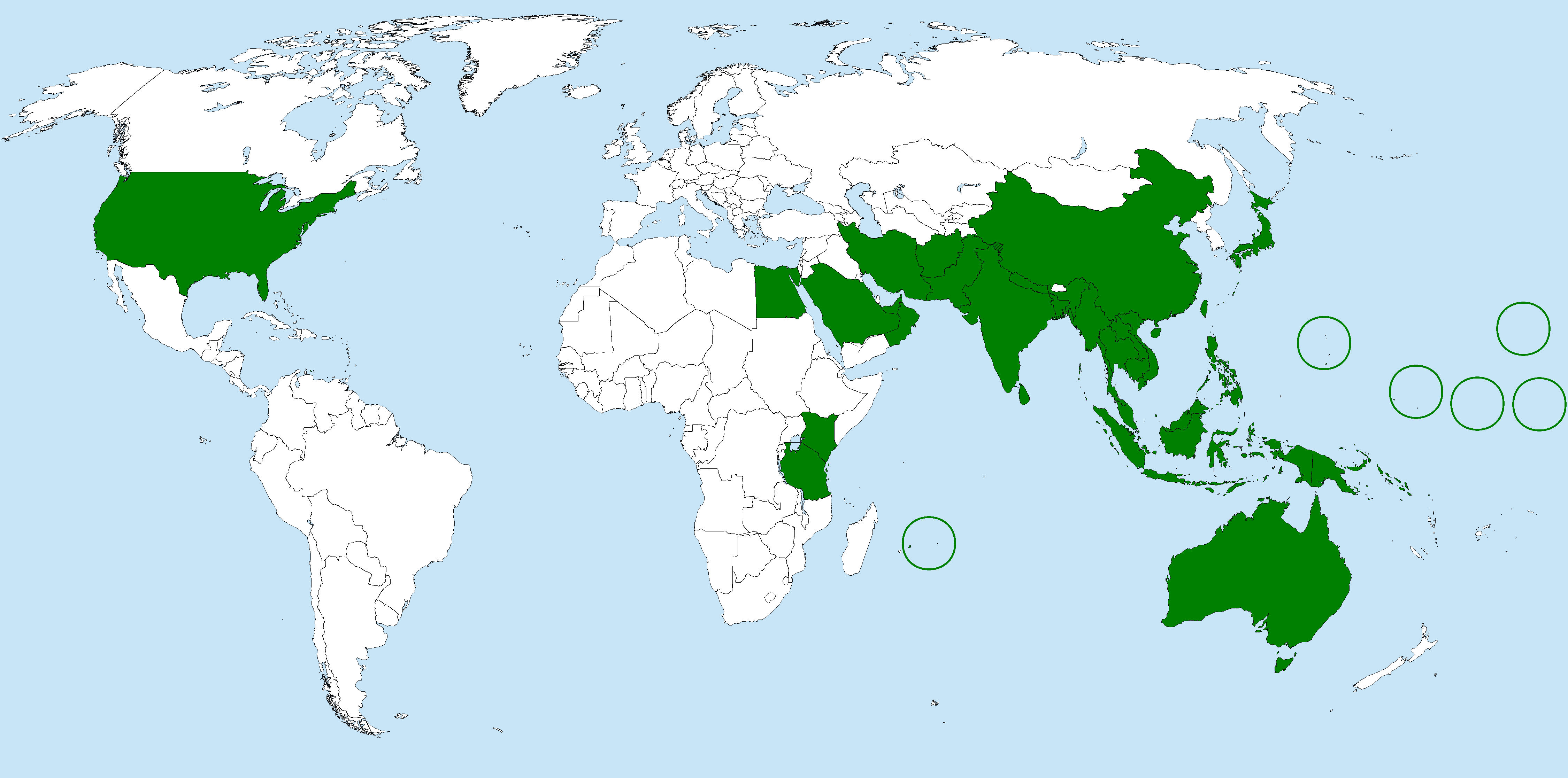 Bactrocera cucurbitae range map